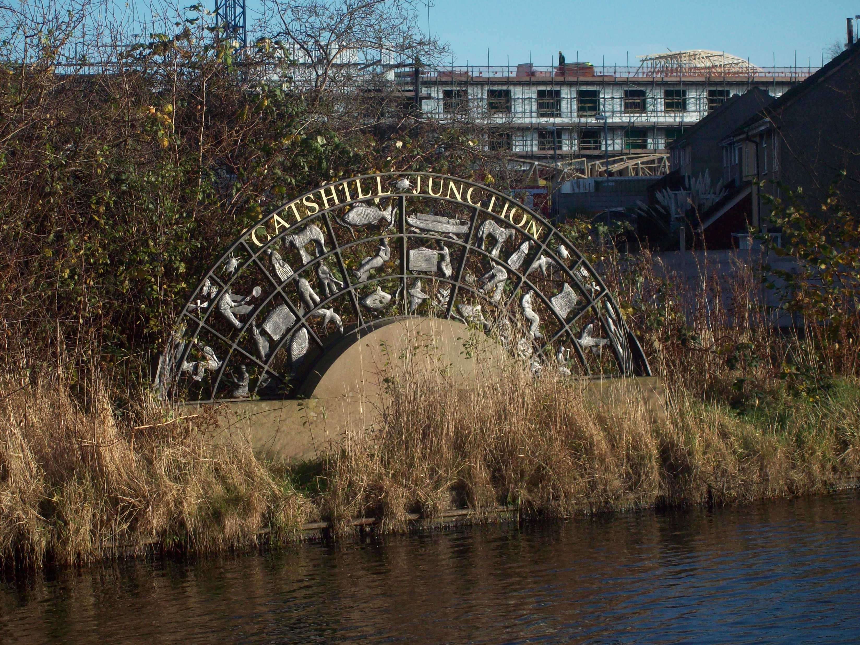 Photograph of sculpture on the Wyrley and Essington Canal at Catshill Junction, Brownhills, England.